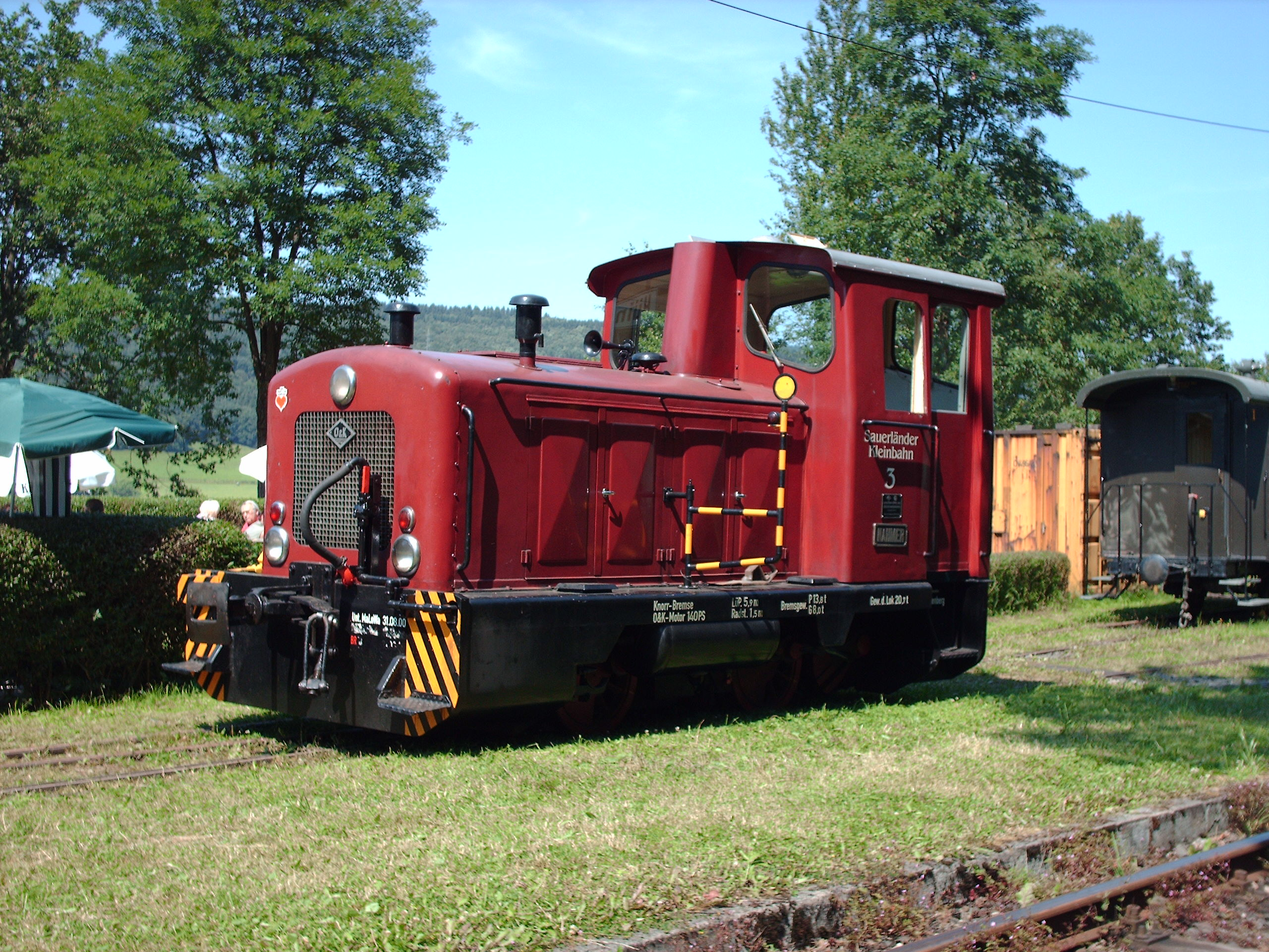 Diesel locomotive V3 Nahmer, Herscheid, Germany check usage